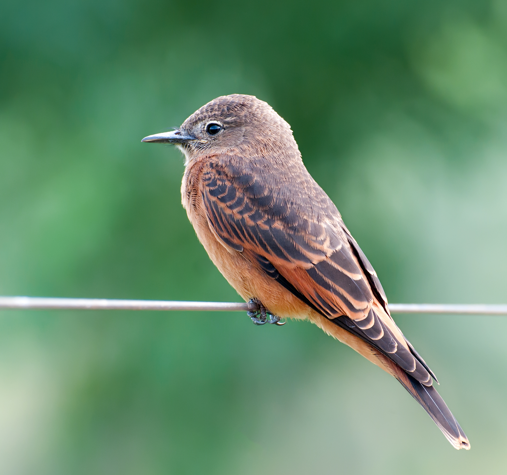 A Cliff Flycatcher in Piraju, São Paulo, Brazil.